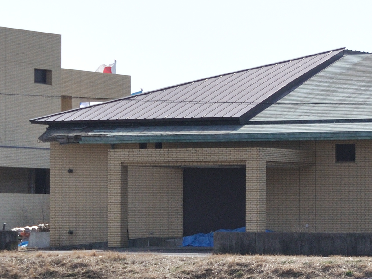 Roof of Kujukuri Iwashi Museum in Kujukuri Town, Chiba Prefecture, Japan, which has been damaged by natural gas explosion and repaired later